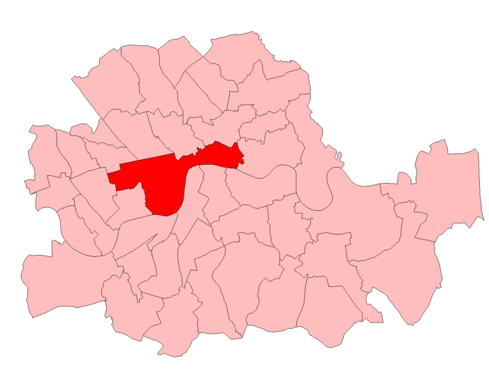 A map of Cities of London and Westminster constituency within the London County Council area, as it existed from 1950 to 1974.